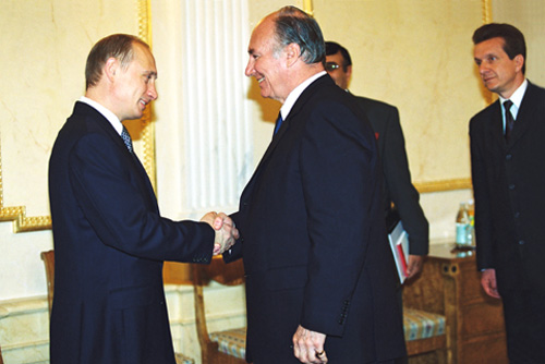 THE KREMLIN, MOSCOW. President Putin with Prince Karim Aga Khan IV.